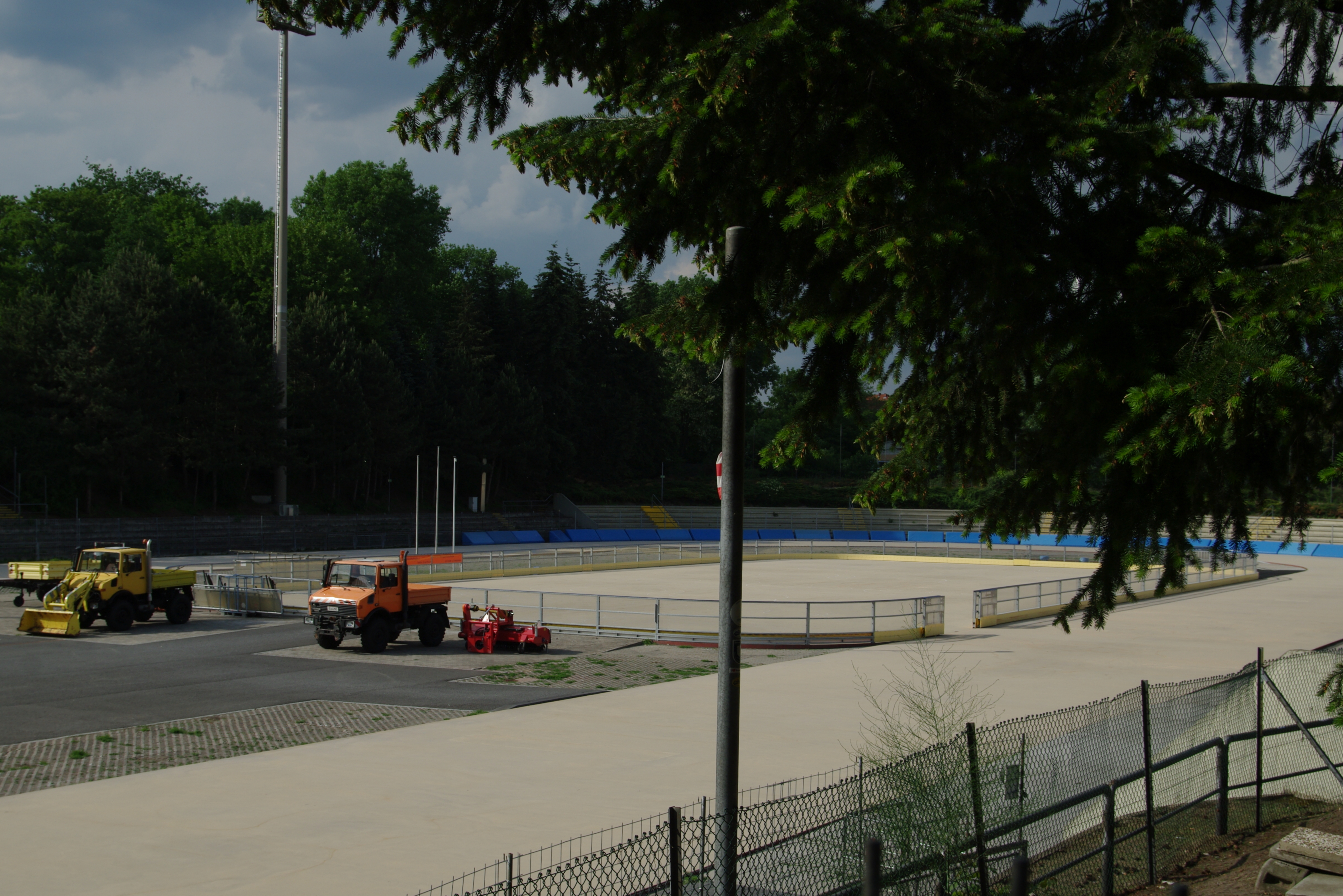 Horst-Dohm ice skating stadium in Berlin-Schmargendorf in summer.